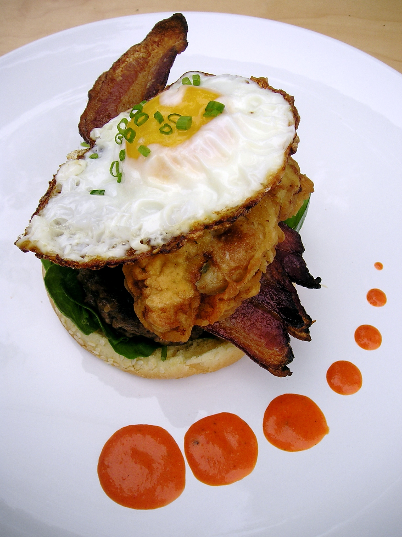 A hangtown fry is an omelet using bacon, oysters, and eggs fried together. This is a "hangtown burger" which added a ⅓-pound chuck steak, sriracha sauce of roasted red peppers, and baby arugula.